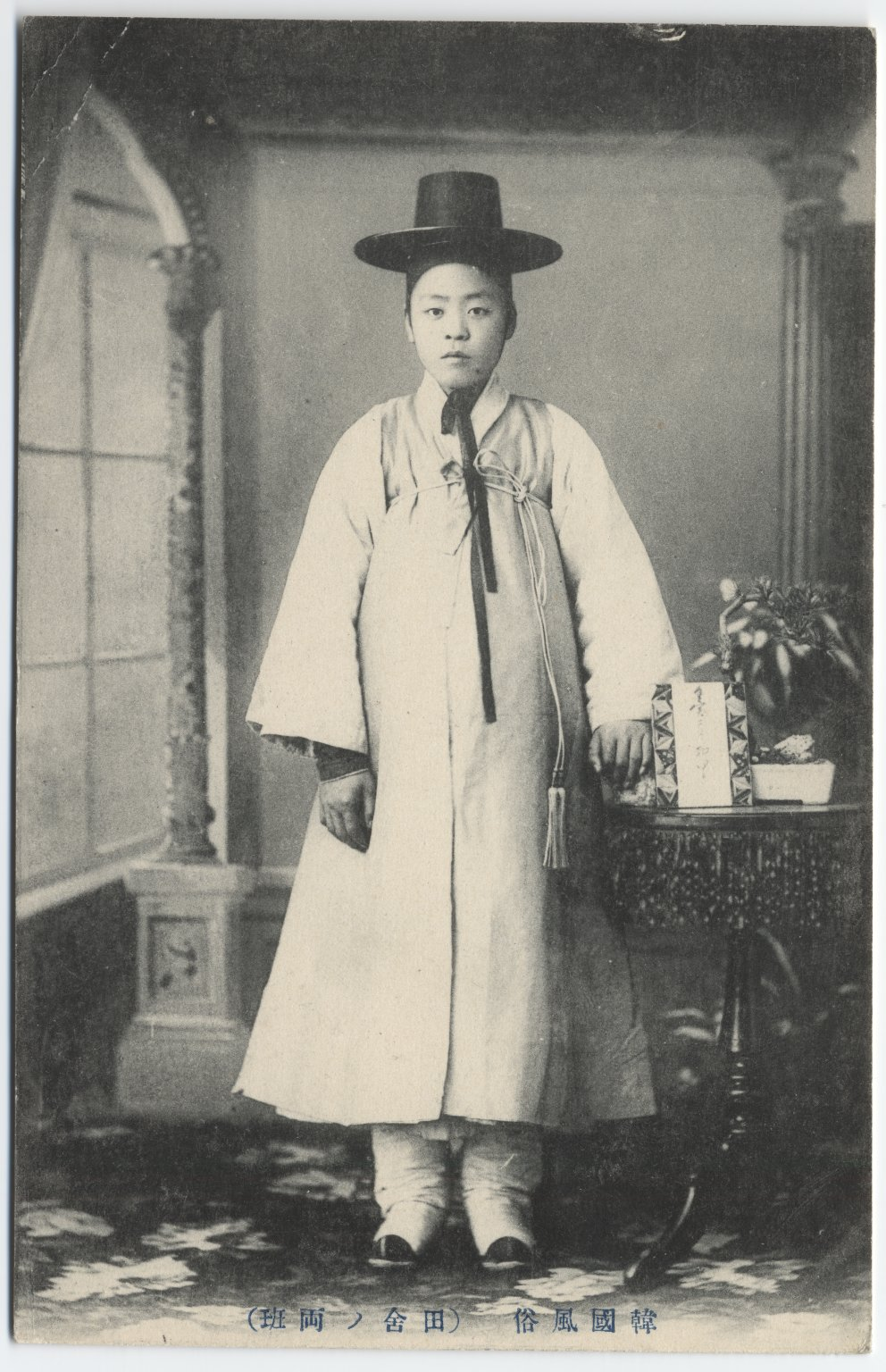 Collection: Willard Dickerman Straight and Early U.S.-Korea Diplomatic Relations, Cornell University Library Title: Corean man. Middle class Date: ca. 1904 Place: Asia: South Korea Type: Postcards/Ephemera Description: A young man of the aristocratic class of the Yi Dynasty in full scholar's dress. He wears an ordinary overcoat (called 'topo' or 'chongjibok'); a black, wide-brimmed 'kat' (black horsehair hat); 'taesahye' (black silk shoes); and a string belt with a tassel tied over the coat. This again is an image taken in a studio setting. The early history of photography in Korea is very little researched, so it is difficult to attribute the image to one photographer. Inscription/Marks: Image imprinted with a legend in Japanese character. Pencilled inscription of verso: 'Corean Man. Middle Class.' Identifier: 1260.74.11.09 Persistent URI: There are no known U.S. copyright restrictions on this image. The digital file is owned by the Cornell University Library which is making it freely available with the request that, when possible, the Library be credited as its source. We had some help with the geocoding from Web Services by Yahoo!